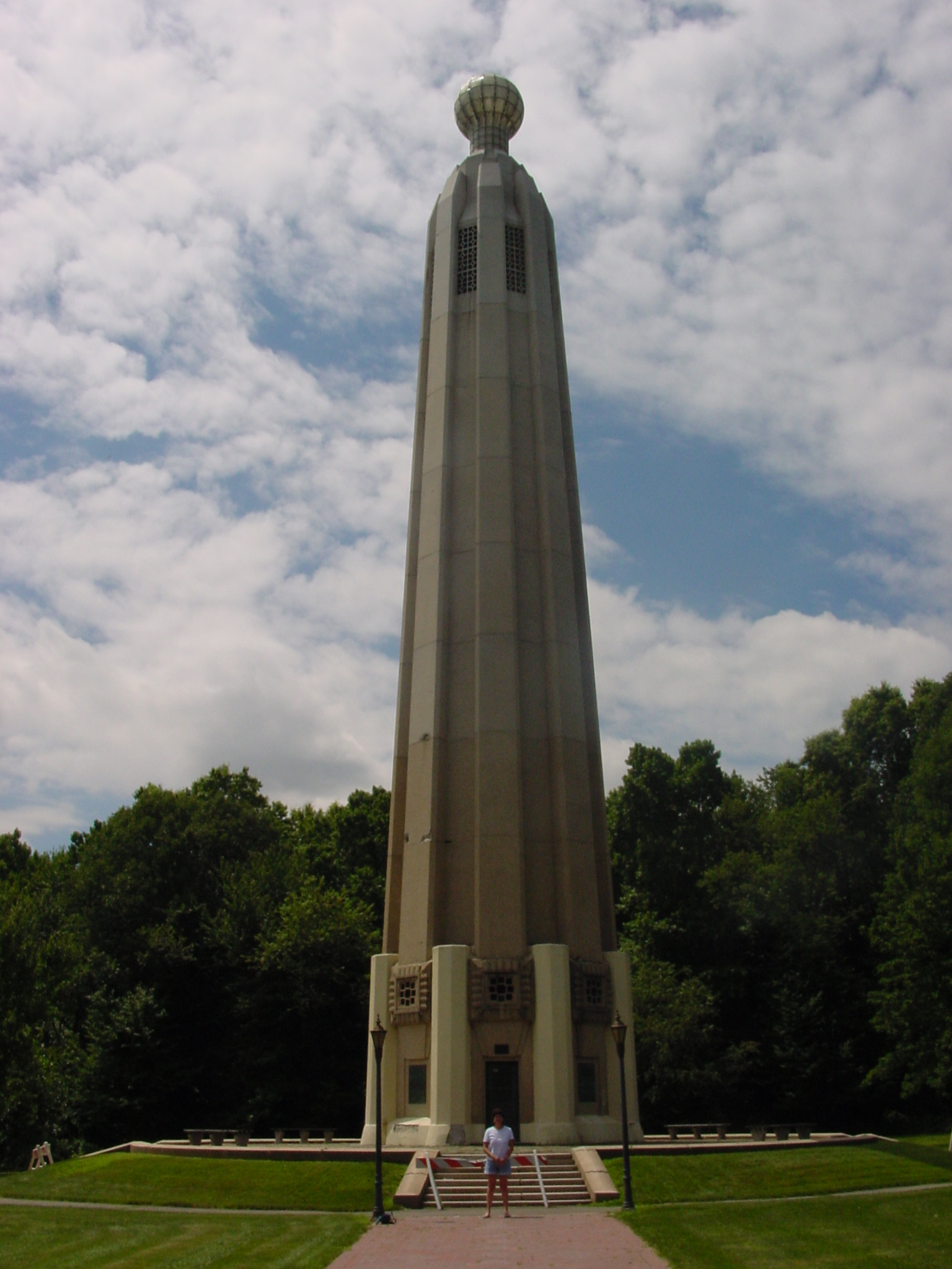 edison tower menlo park new jersey